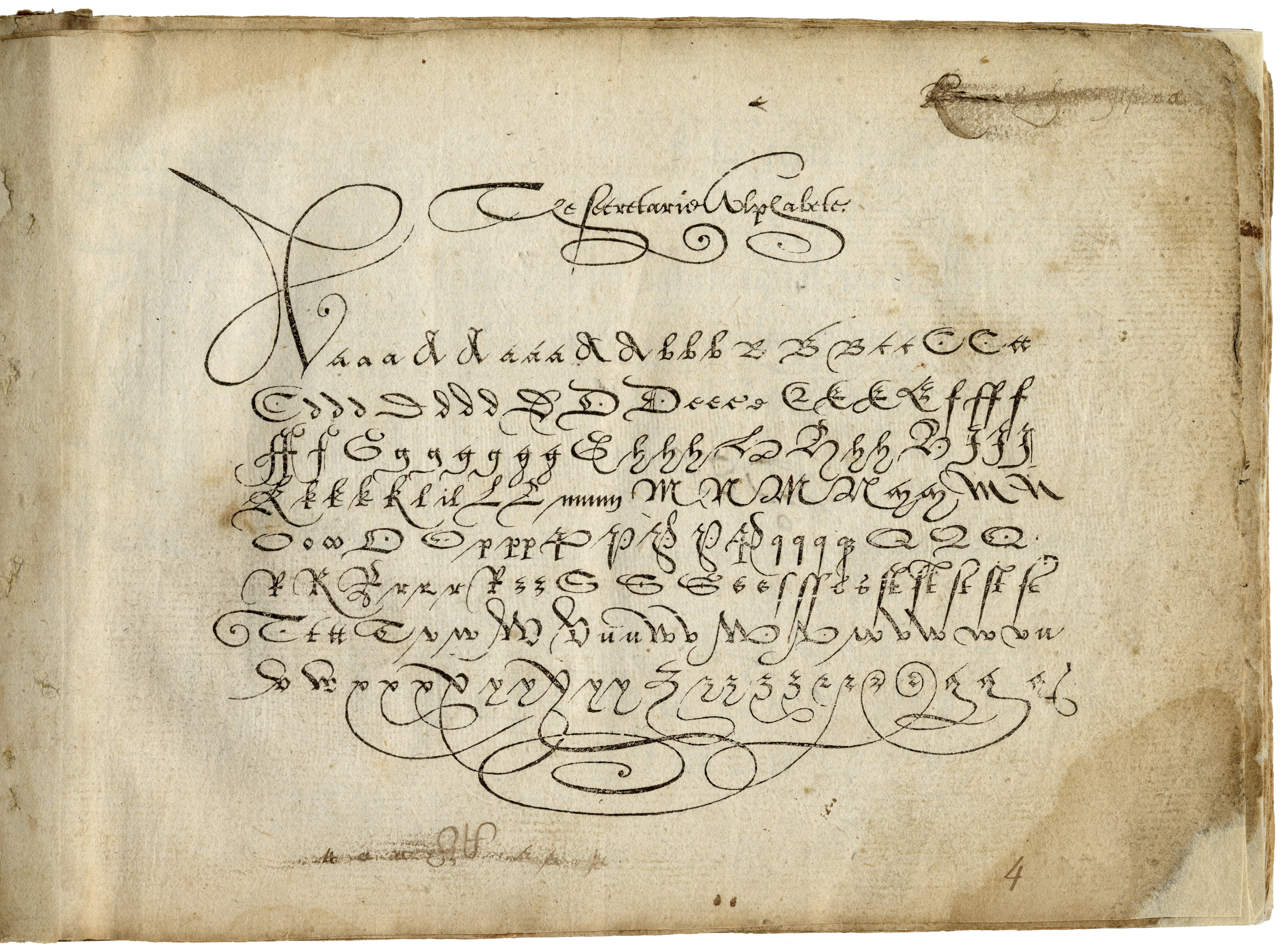 An alphabet page for the secretary hand, from a penmanship book published in England in 1570